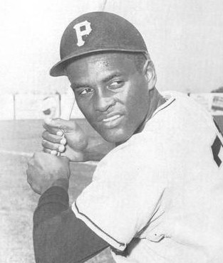 Professional baseball player Roberto Clemente